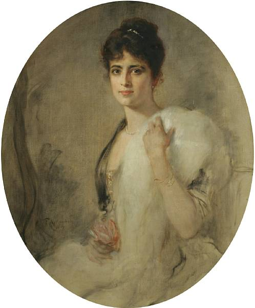 A portrait of a lady, half-length, wearing a white dress, thought to be Princess Marie von Hohenzollern (??). Signed and dated 'F.A. Kaulbach 1917', oil on canvas, oval 107 x 91 cm